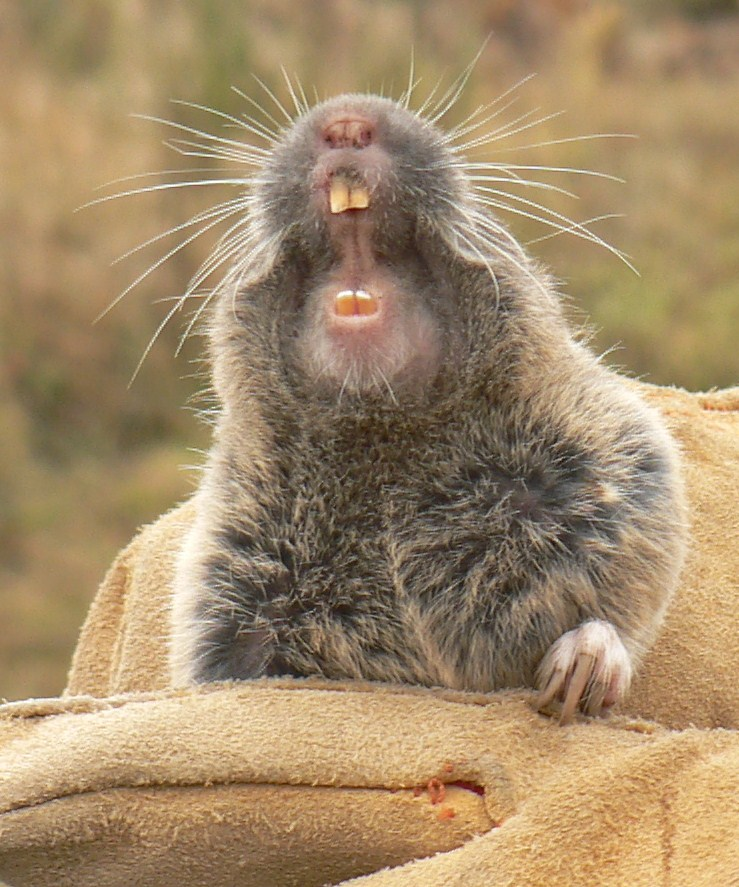 Thomomys mazama mouth agape; the lips close behind the teeth, which is an adaptation to prevent soil entering the gophers oral cavity.